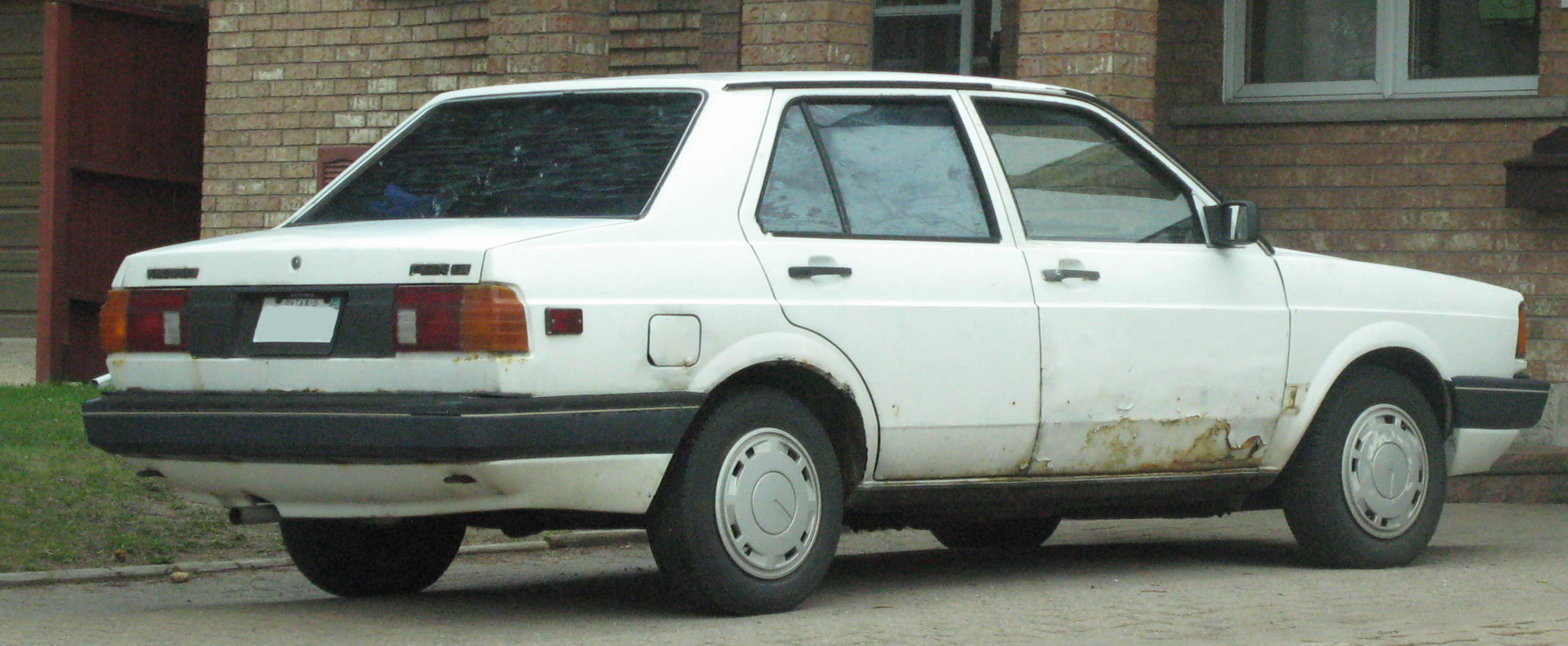 1987 Volkswagen Fox GL photographed in Sault Ste. Marie, Ontario, Canada